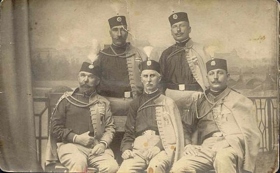 Members of the Black Hand; Dragutin Dimitrijević "Apis" standing right